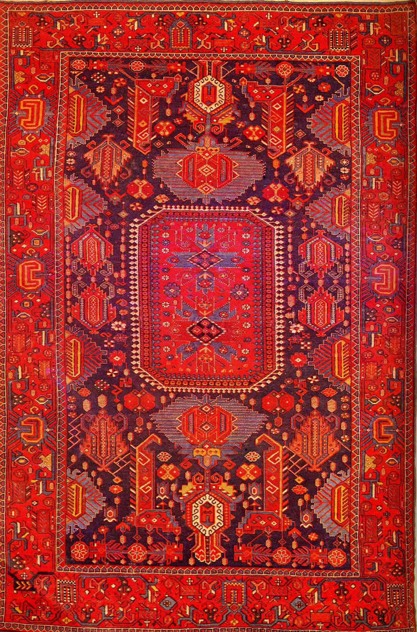 Azerbaijanian Gabala Carpet